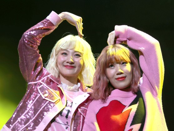 Bolbbalgan4 performing in Busan on December 31, 2017